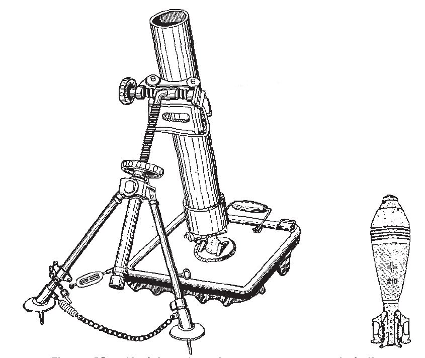 Japanese Type 99 81mm mortar and shell